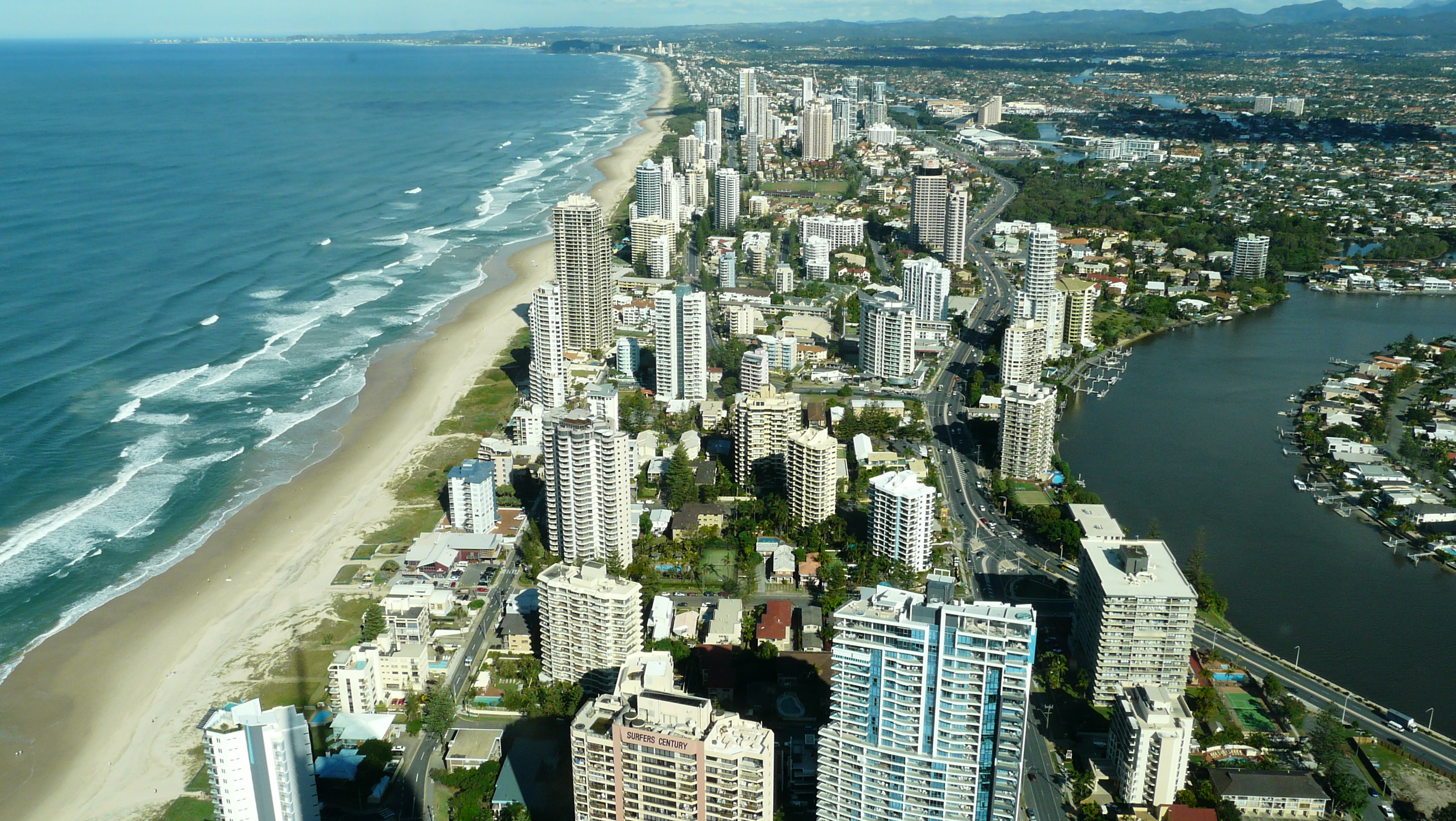 Q Deck view, day